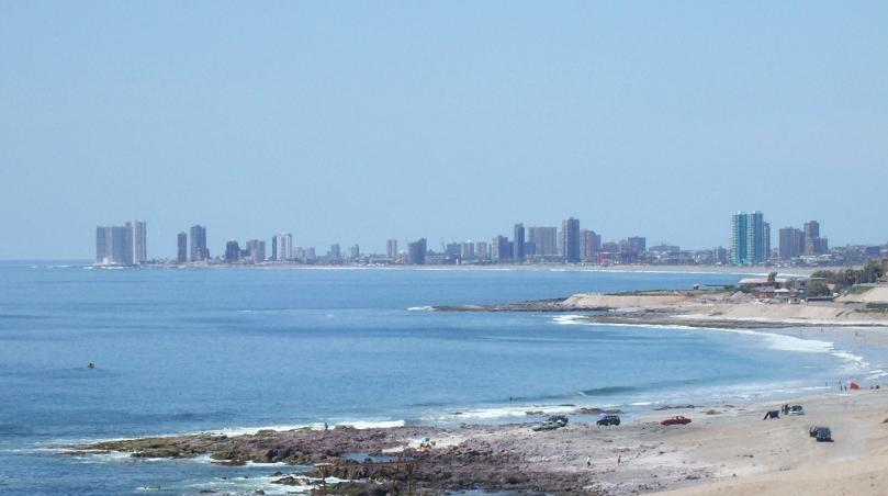 South view of Iquique